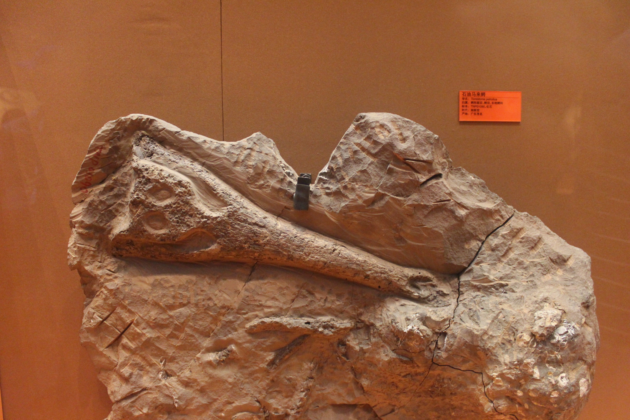 Skull of Maomingosuchus petrolica on display at the Tianjin Natural History Museum.